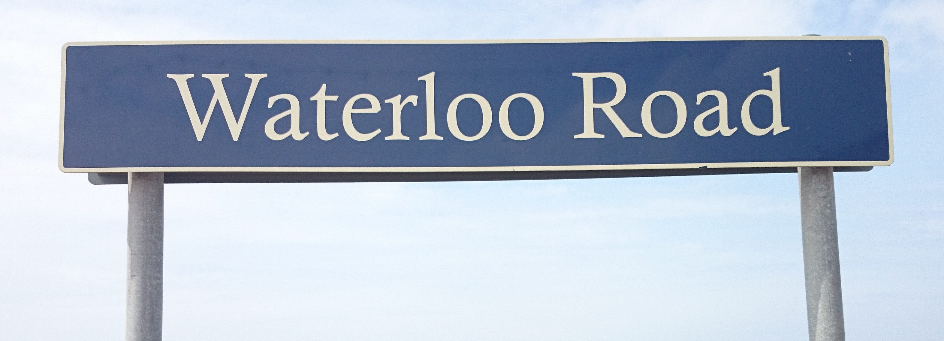 The sign of the Waterloo Road stop on the Blackpool Tramway.